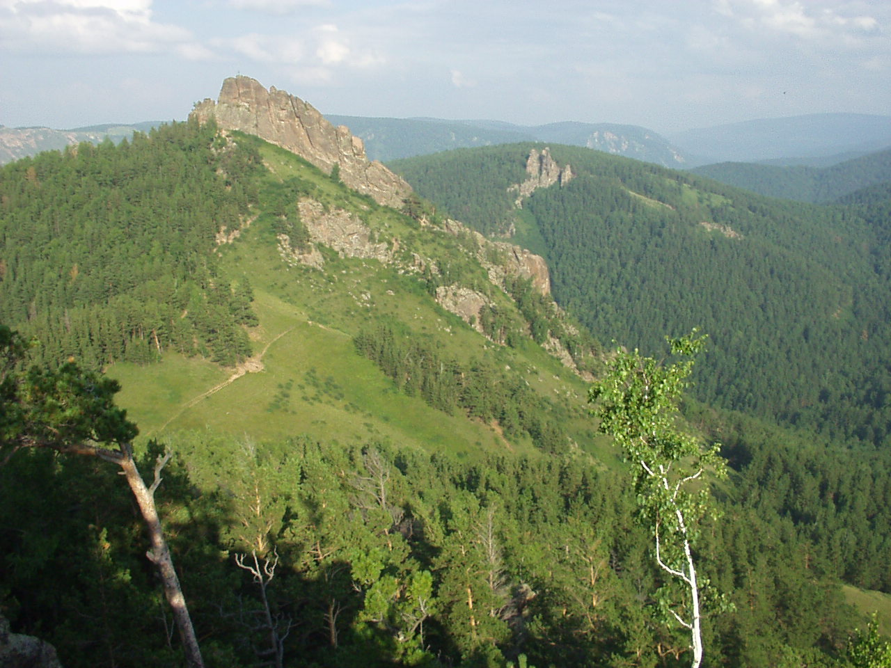 Krasnoyarsk Stolby reserve